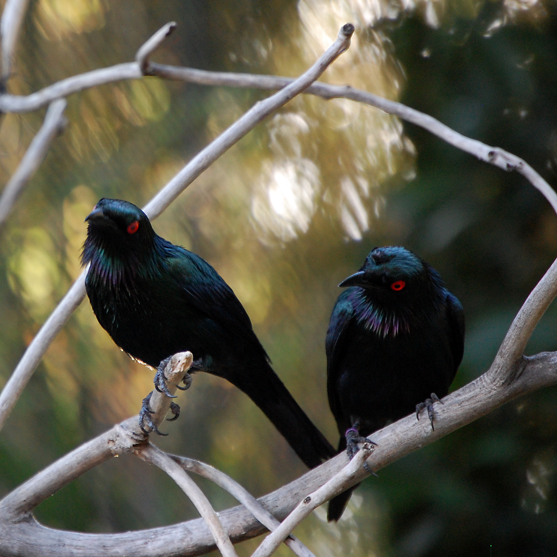 Two Metallic Starlings at Phoenix Zoo, Arizona, USA. They are the nominate subspecies according to ISIS listing for the zoo.